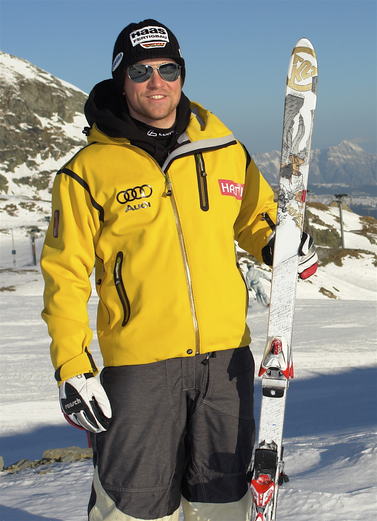 Gerhard Blöchl German Wourldcup Ski Freestyle German Skifederation